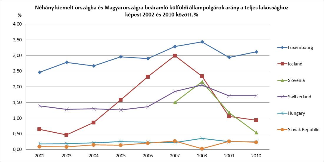 Beáramló külföldi állampolgárok aránya a teljes lakossághoz képest